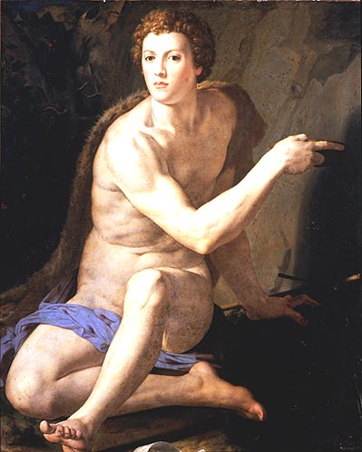 probably another portrait of Lodovico Capponi